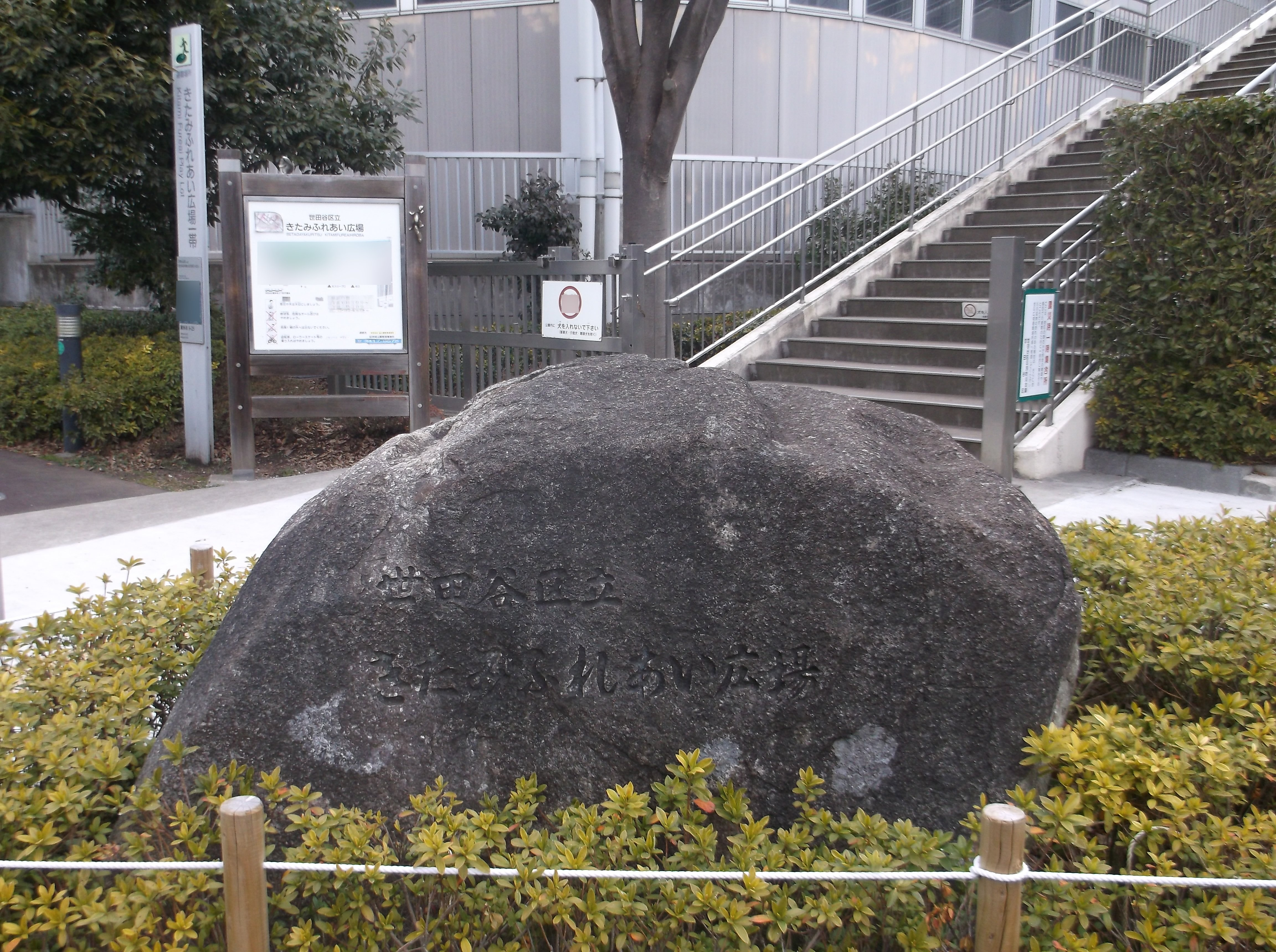 A photo of "Kitami Fureai Hiroba"(park),Kitami,Setagaya-ku,Tokyo,Japan.